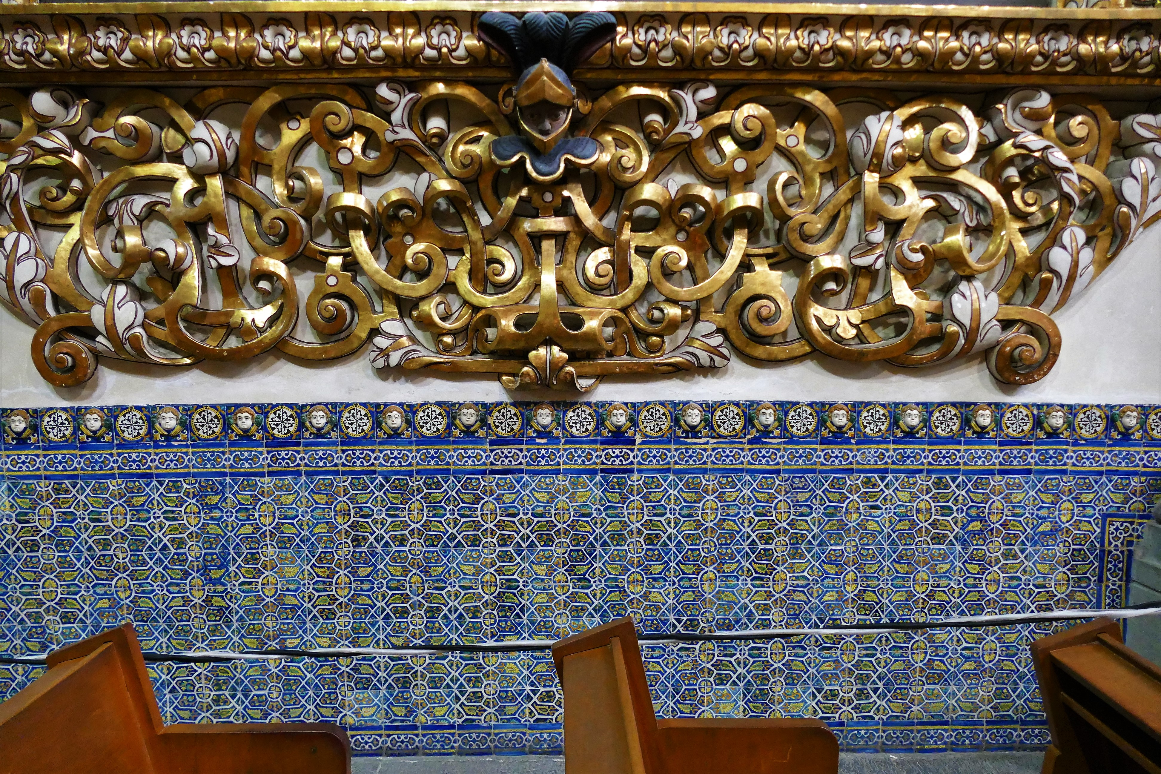 Capilla del Rosario